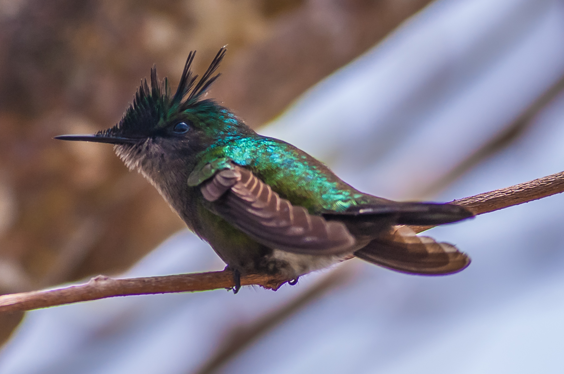 Antillean Crested Hummingbird (Orthorhyncus cristatus), male, observed in Lamarre near Sainte-Anne (Guadeloupe).